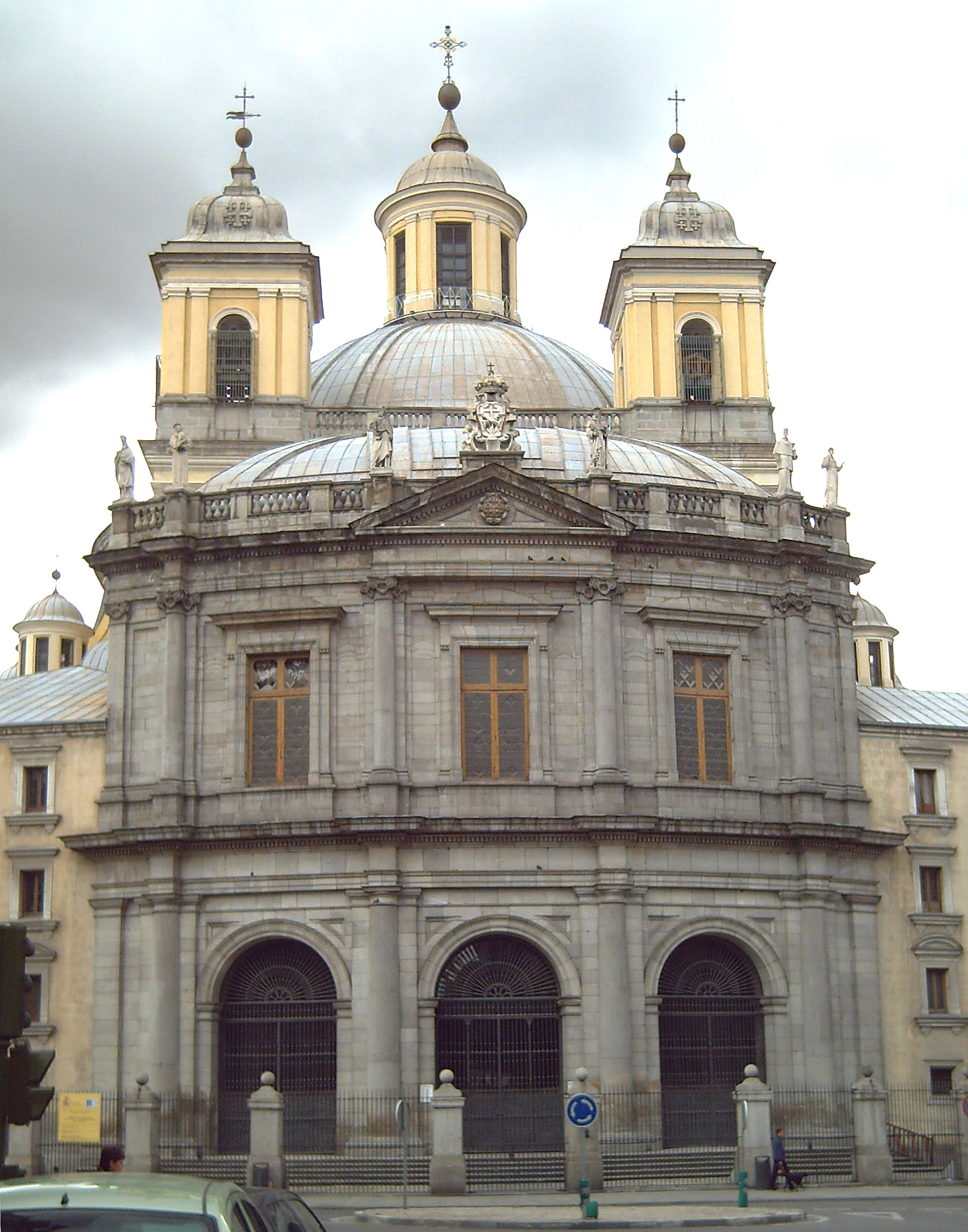 Basílica de San Francisco el Grande ("Basilica of St. Francis of Assisi") in Madrid (Spain). 1761–1784. Architect: Francisco Cabezas (1709–1773).